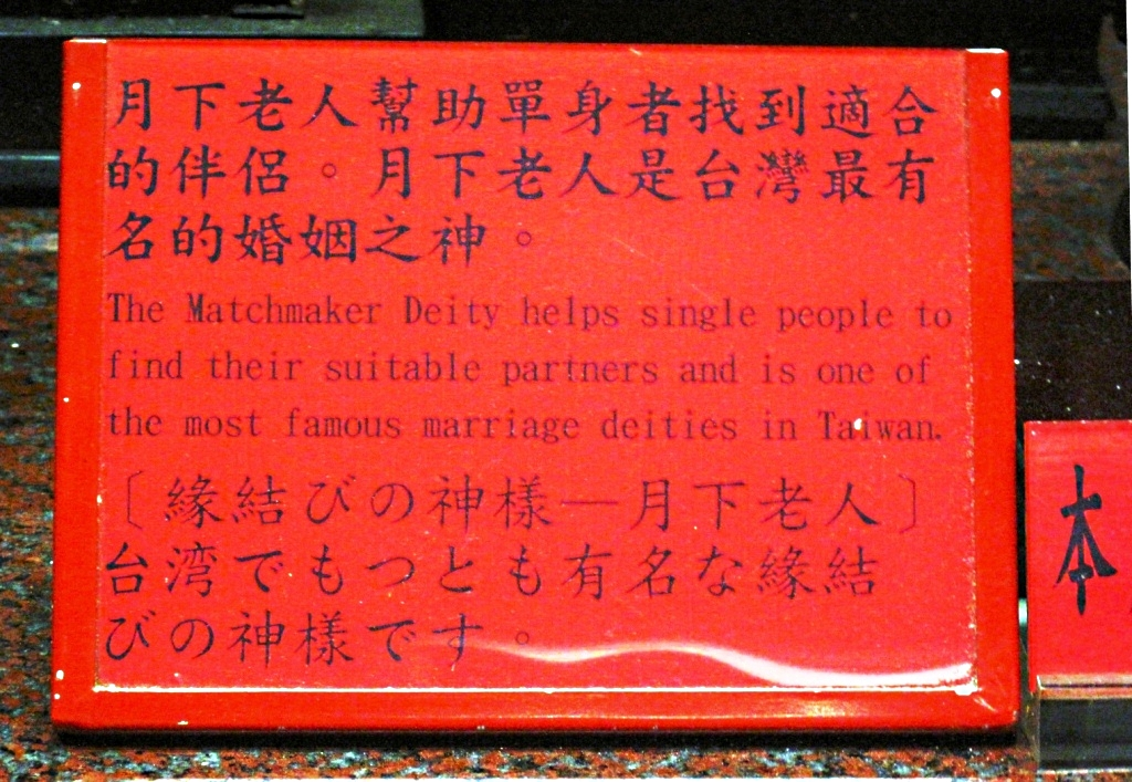 I took this photo in Taipei in 2012